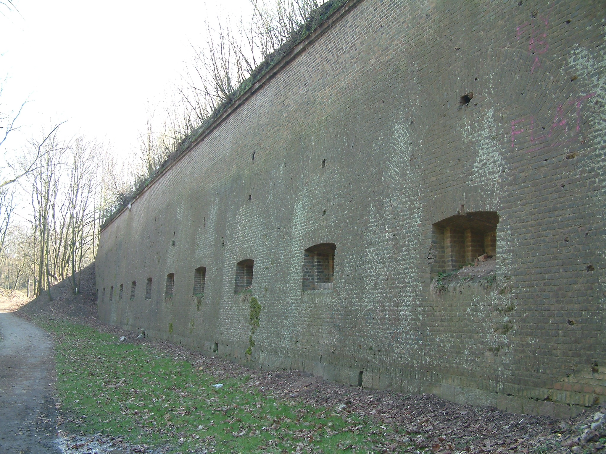 Ravelin I of Fort Winiary in Stronghold Poznań